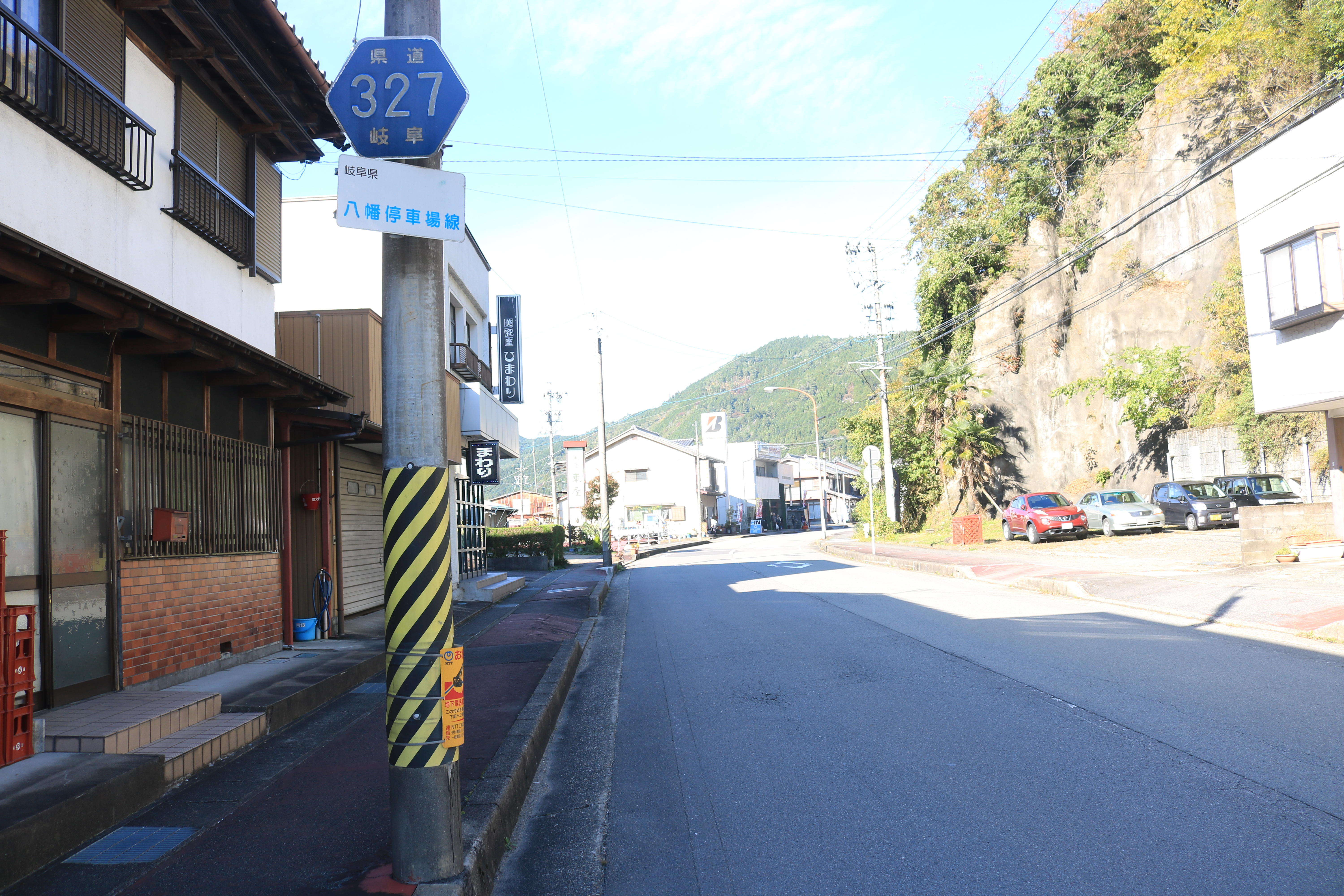 Gifu Prefectural Road Route 327 in Jonancho, Hachimancho, Gujo, Gifu Prefecture, Japan.